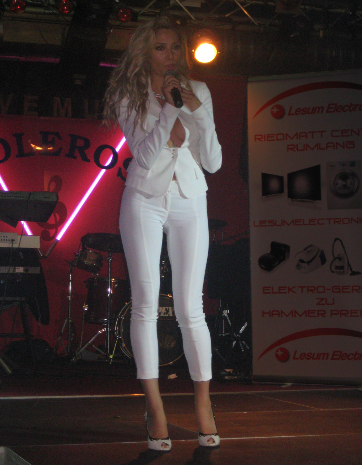 Ledina Çelo at a performance in Zurich